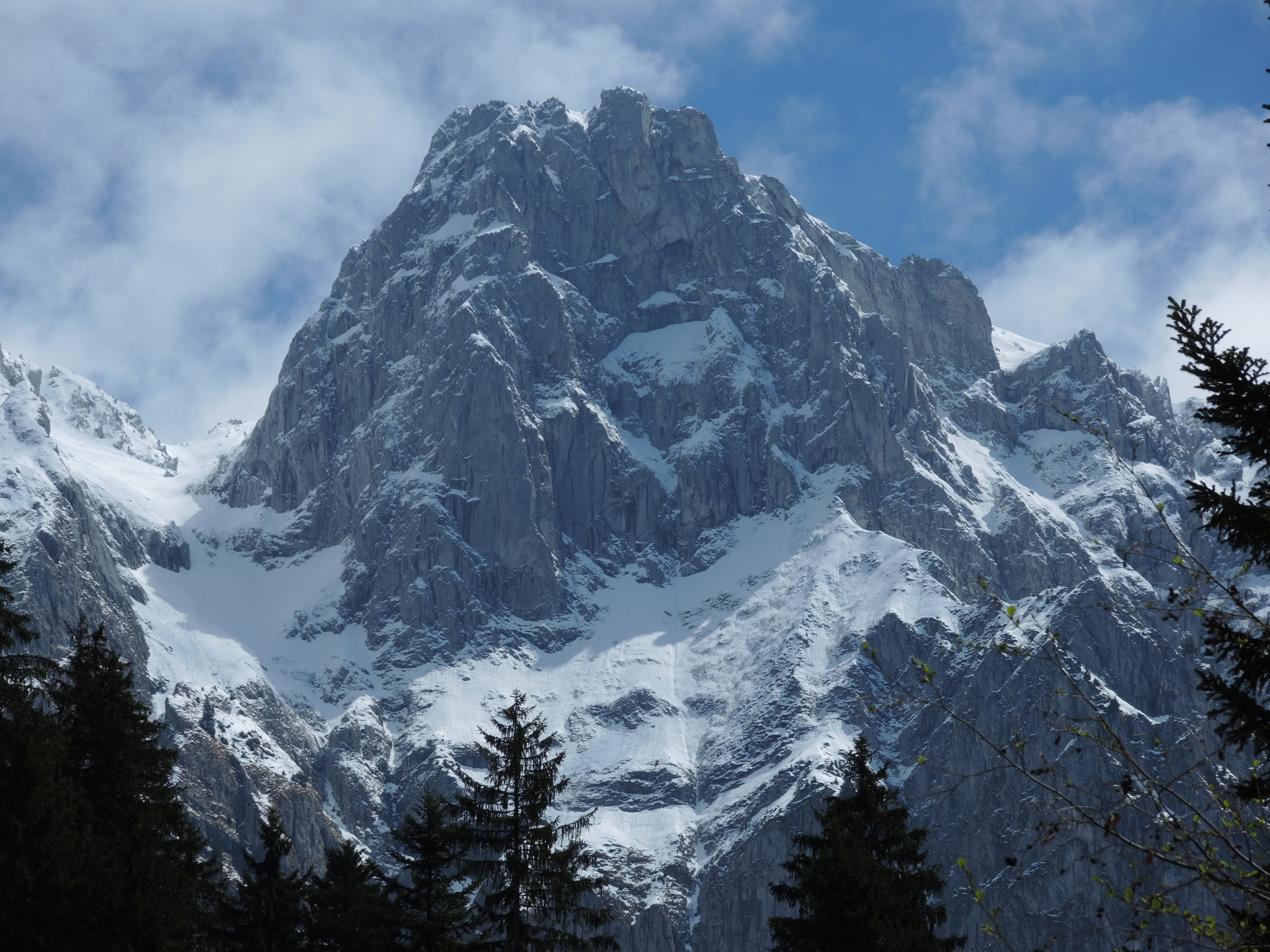 Brecaca, Château-d'Oex (Les Laissalets)